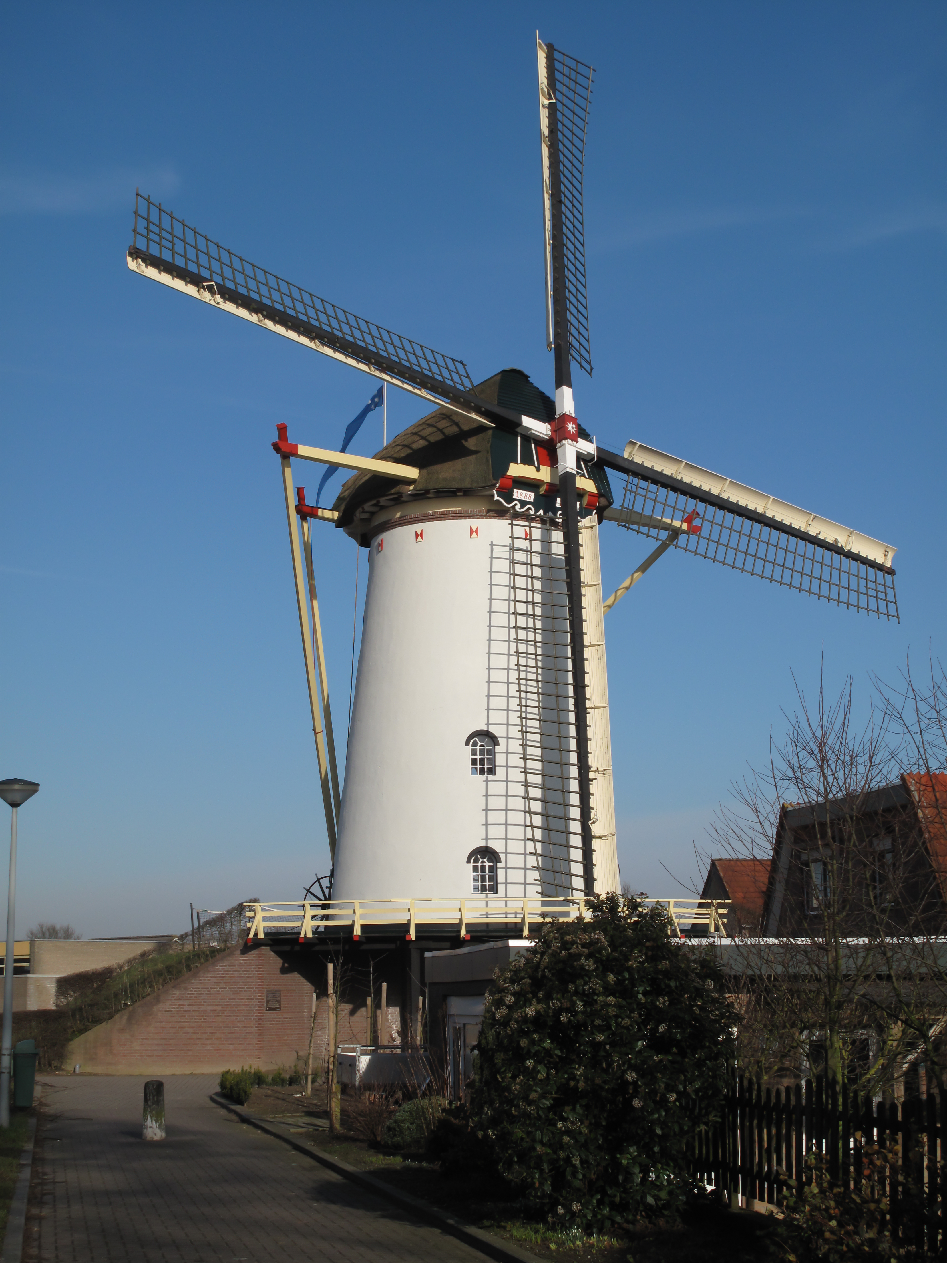 Lobith, windmill: Tolhuys Coornmolen